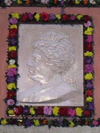 Swami Vivekananda's image been decorated in the birth anniversary ceremony of the school